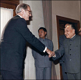 James Lilley and Deng Xiaoping in Beijing in 1980 White House photo.